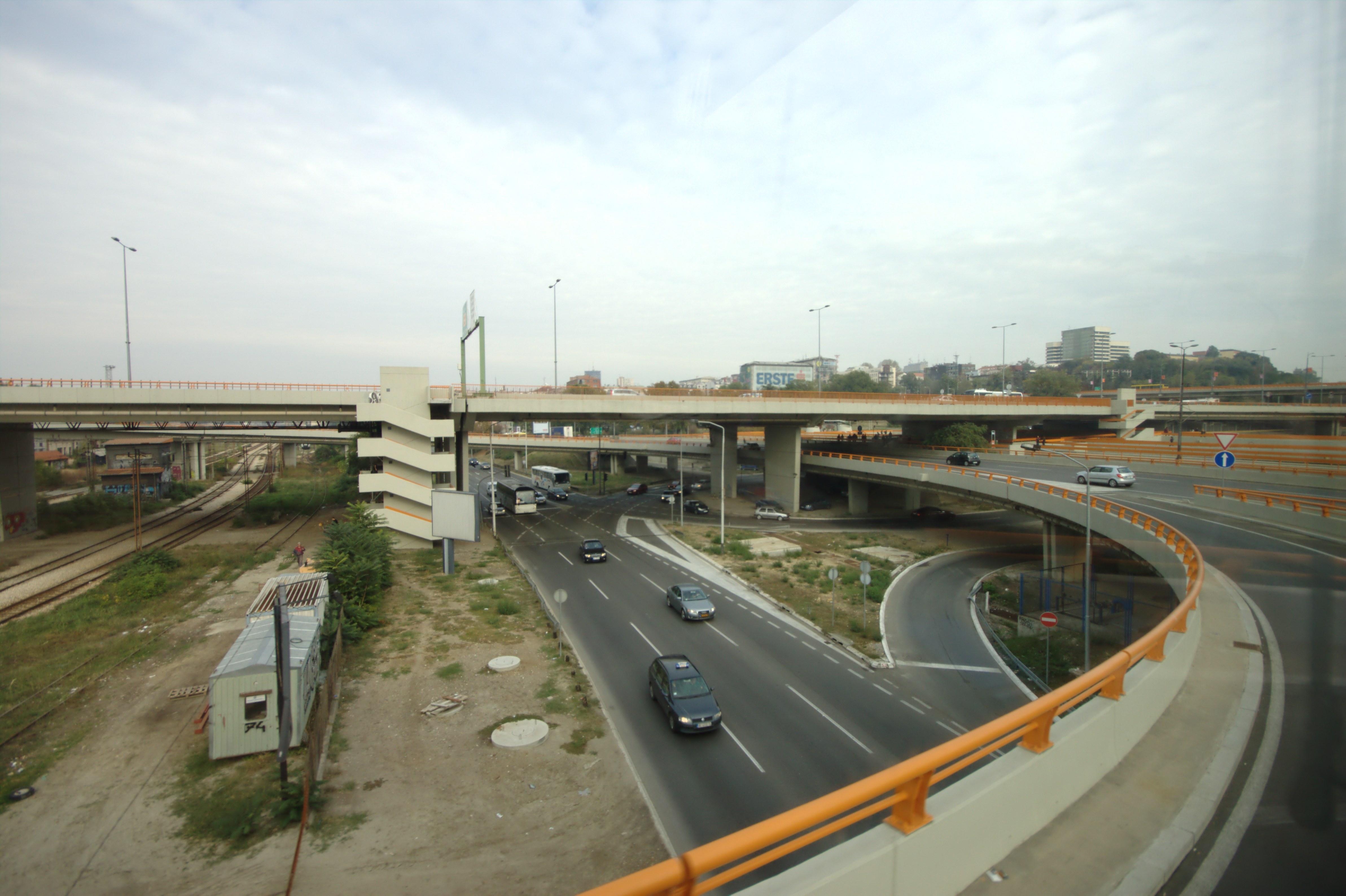 Mostar interchange, Belgrade, Serbia